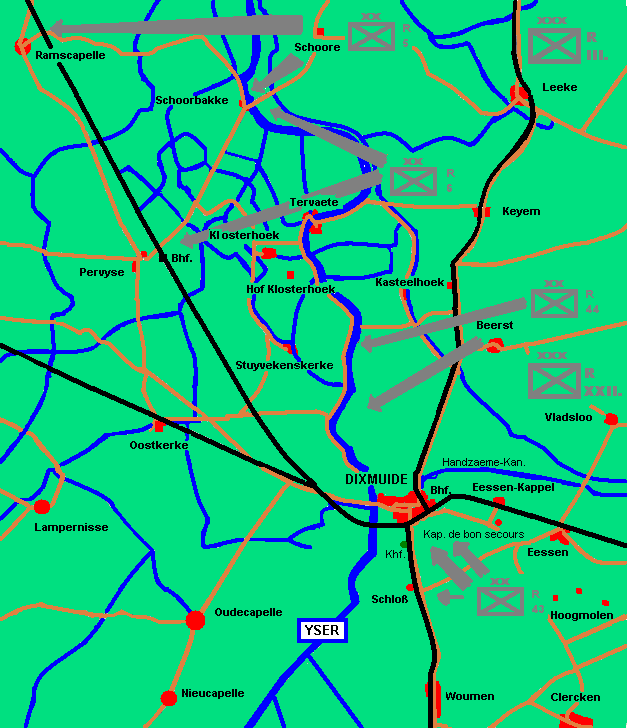 Map of the 1914 Dixmuide battlefield